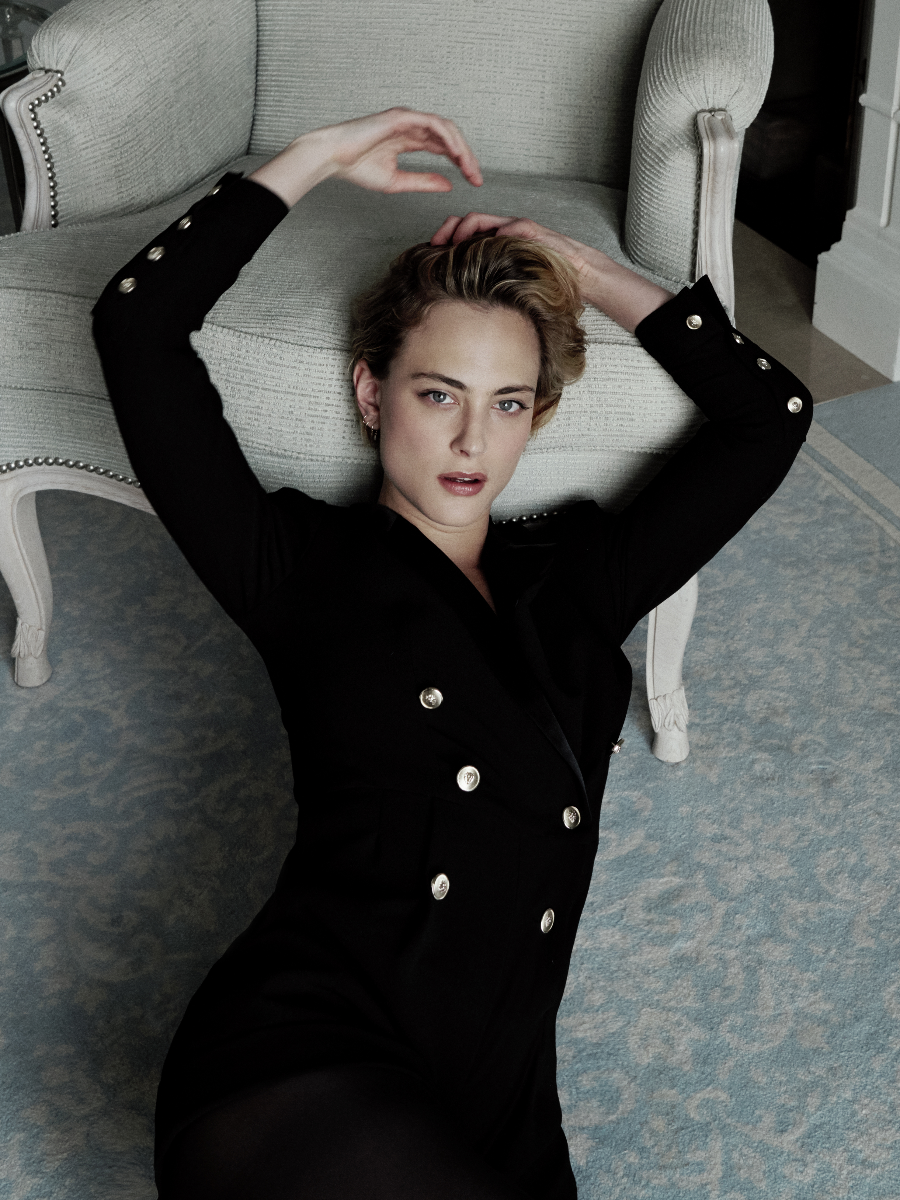 Portrait of Nora Arnezeder 2019